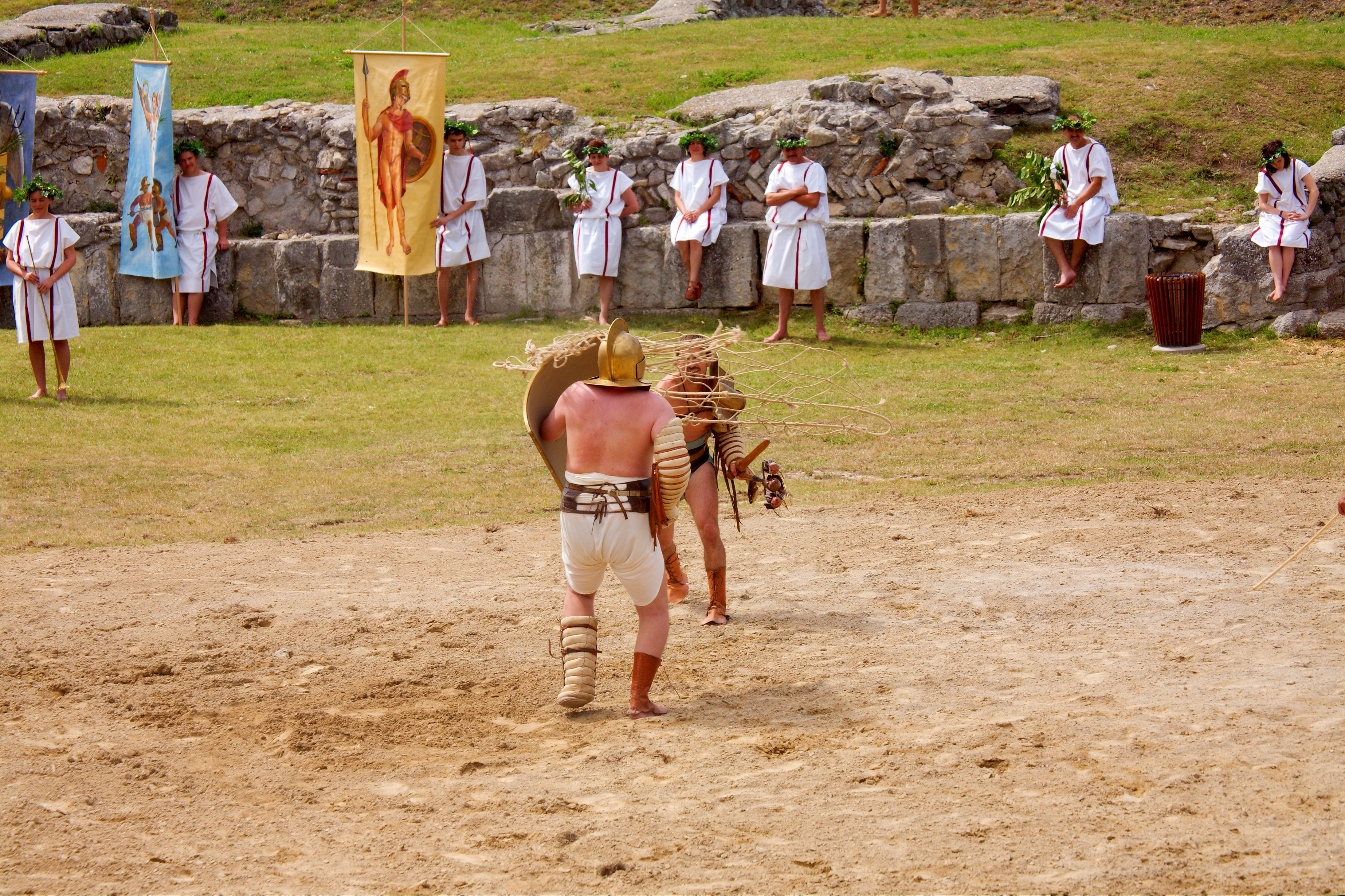 Show fight of the "familia gladiatoria pulli cornicinis" in Carnuntm, Austria.